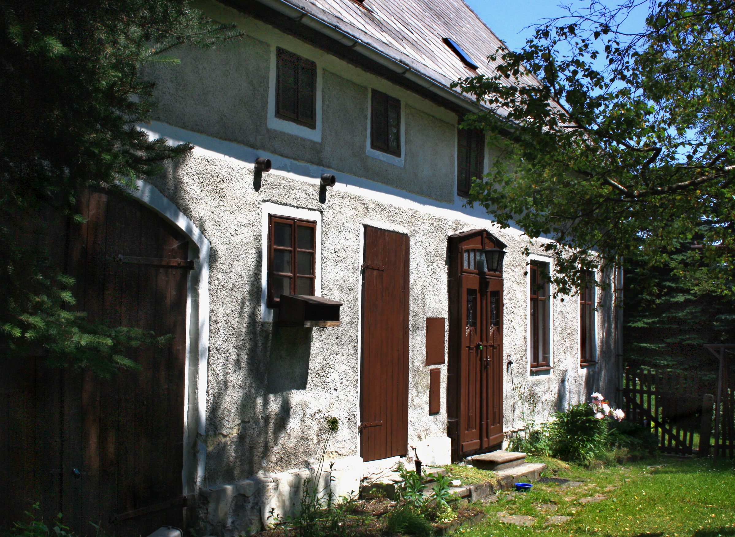 Middle part of Zákoutí village, part of Blatno, Czech Republic